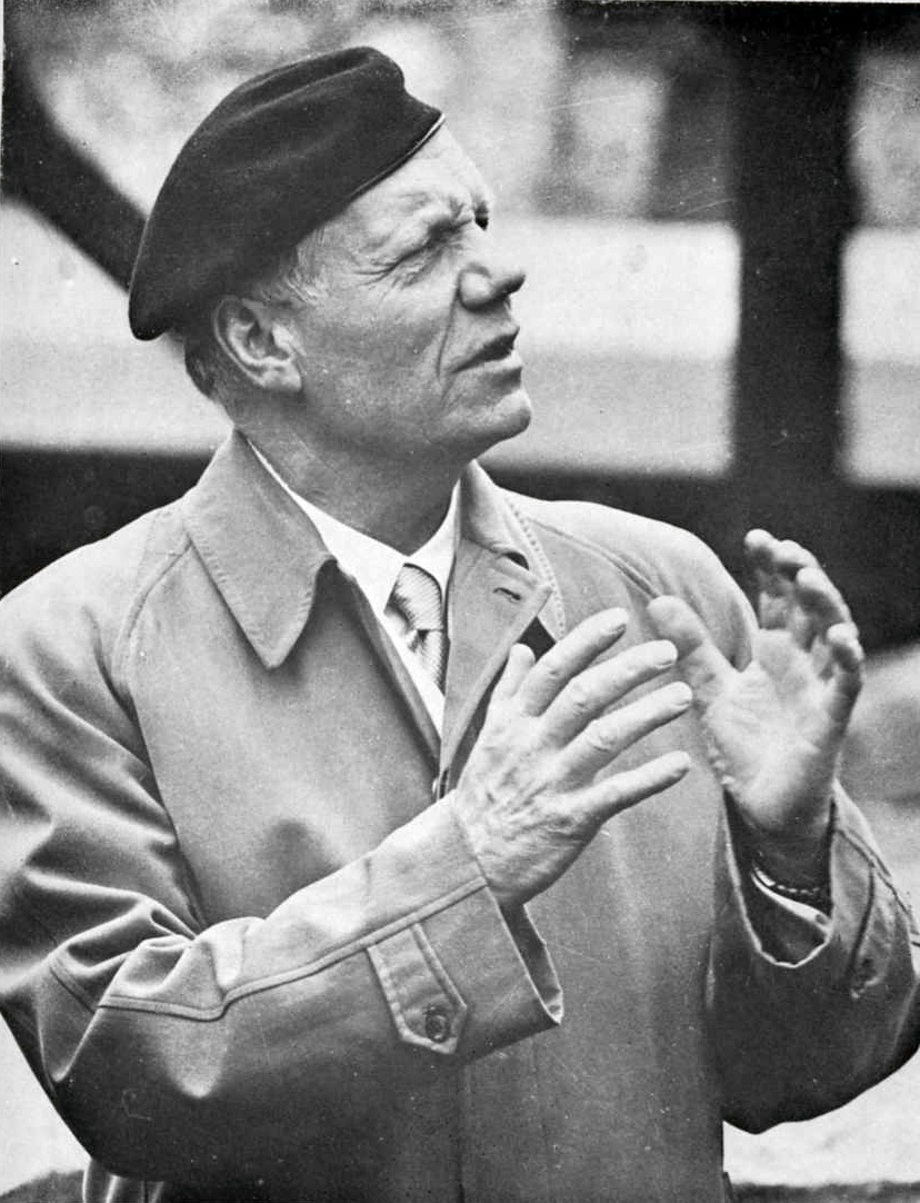 Helge Thiis, Norwegian Architect and leader of the restauration works at Nidarosdomen, Trondheim Cathedral. Photograph released by the kind permission of Nidarosdomens Restaureringsarbeider.